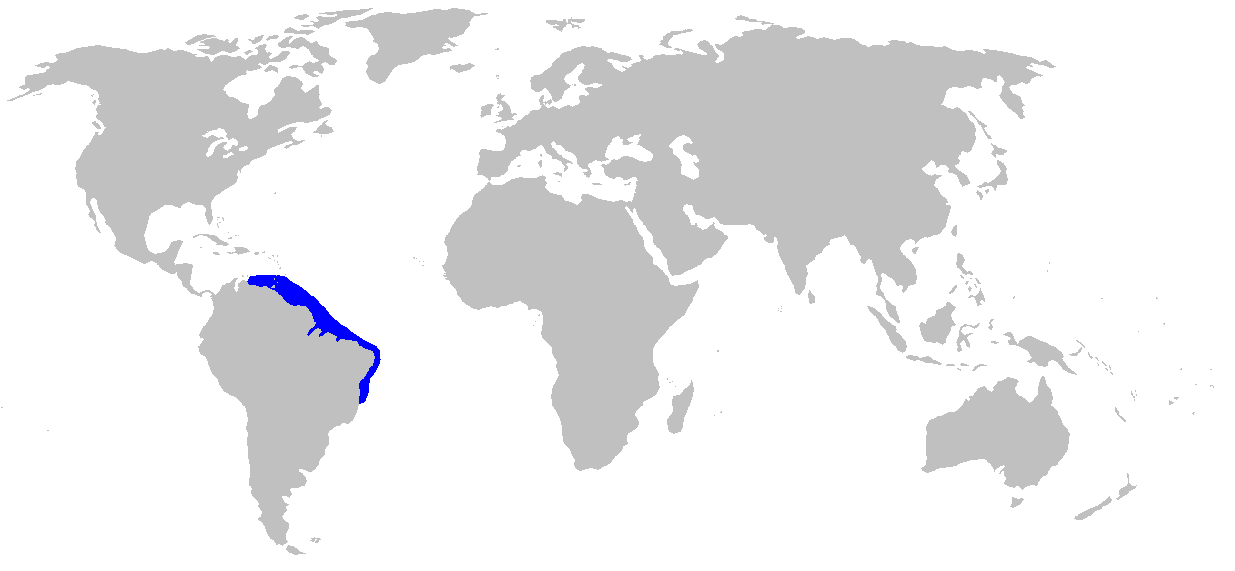 Distribution map for Isogomphodon oxyrhynchus